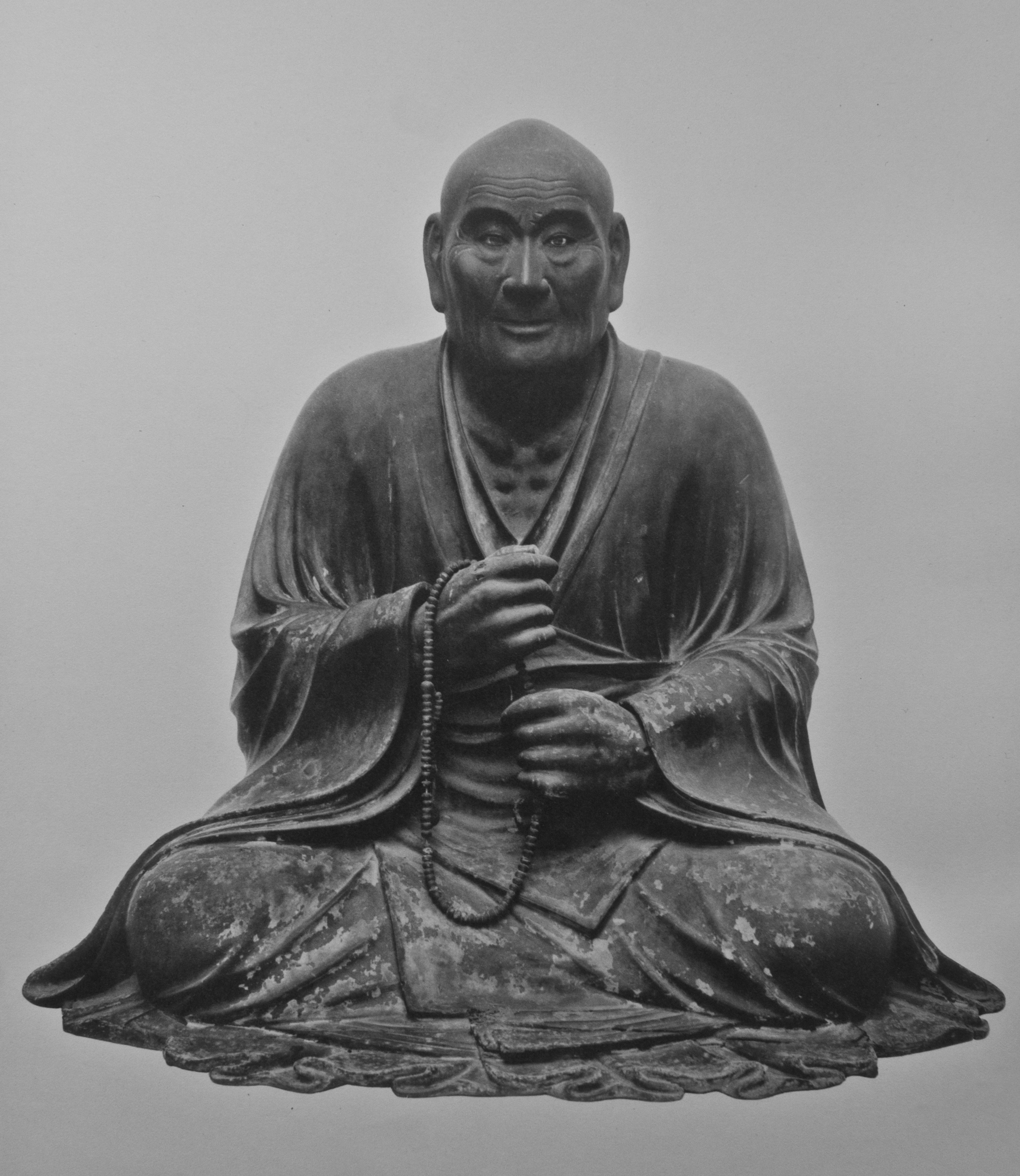 Statue of Unkei, Rokuharamitsuji, Kyoto, Japan